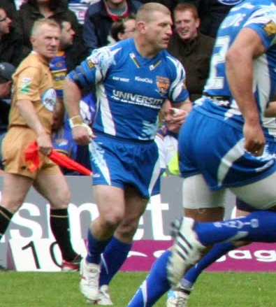 Brad Drew, Australian professional rugby league player.